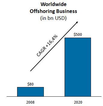 Worldwide Offshoring Business